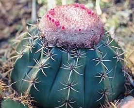 Plant at type habitat, holotype collection, Bahia, Brasil